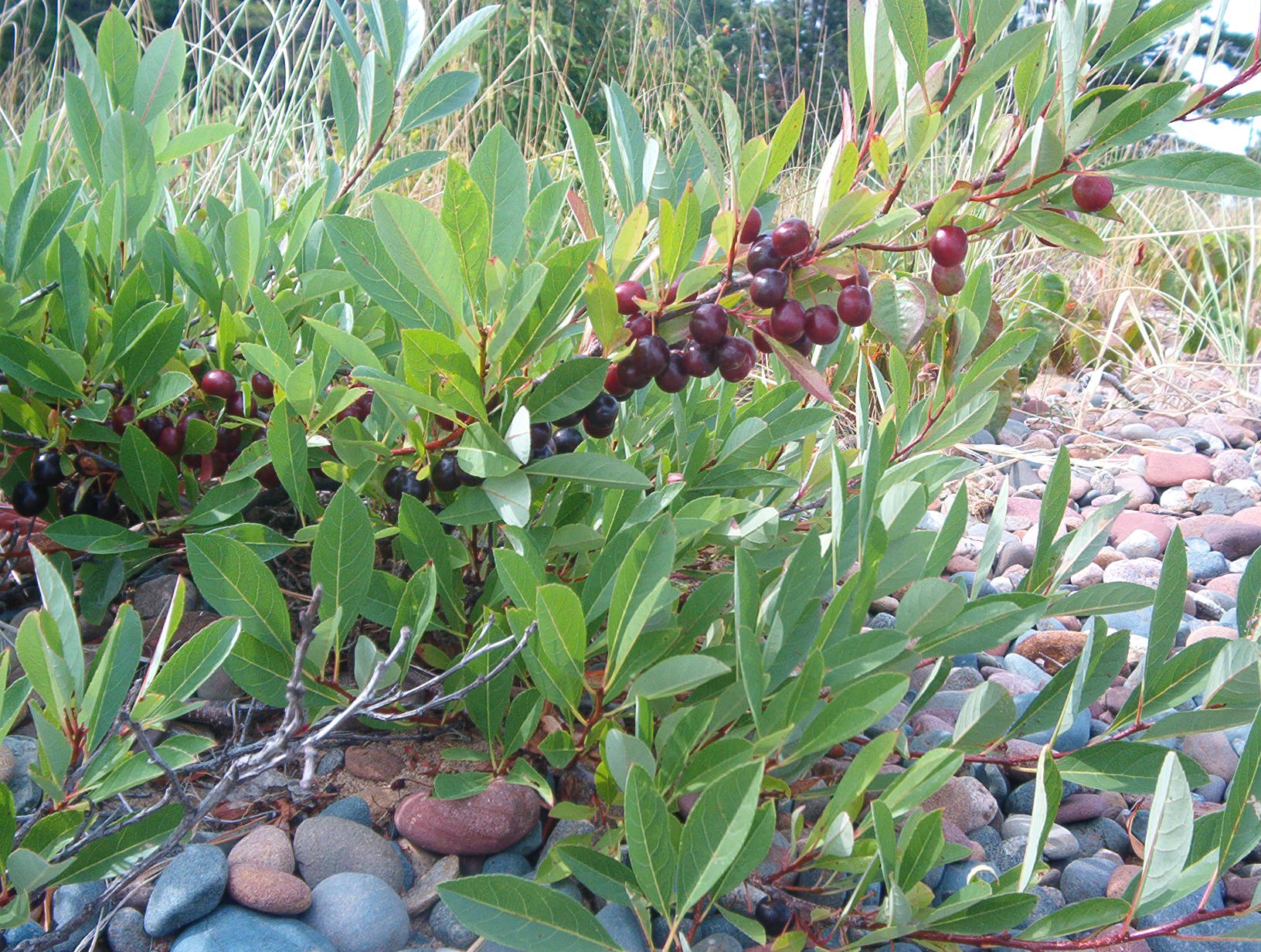 Prunus pumila (sand cherry) in late July, South Ste. Mary's Island, Sault Ste. Marie, Ontario.